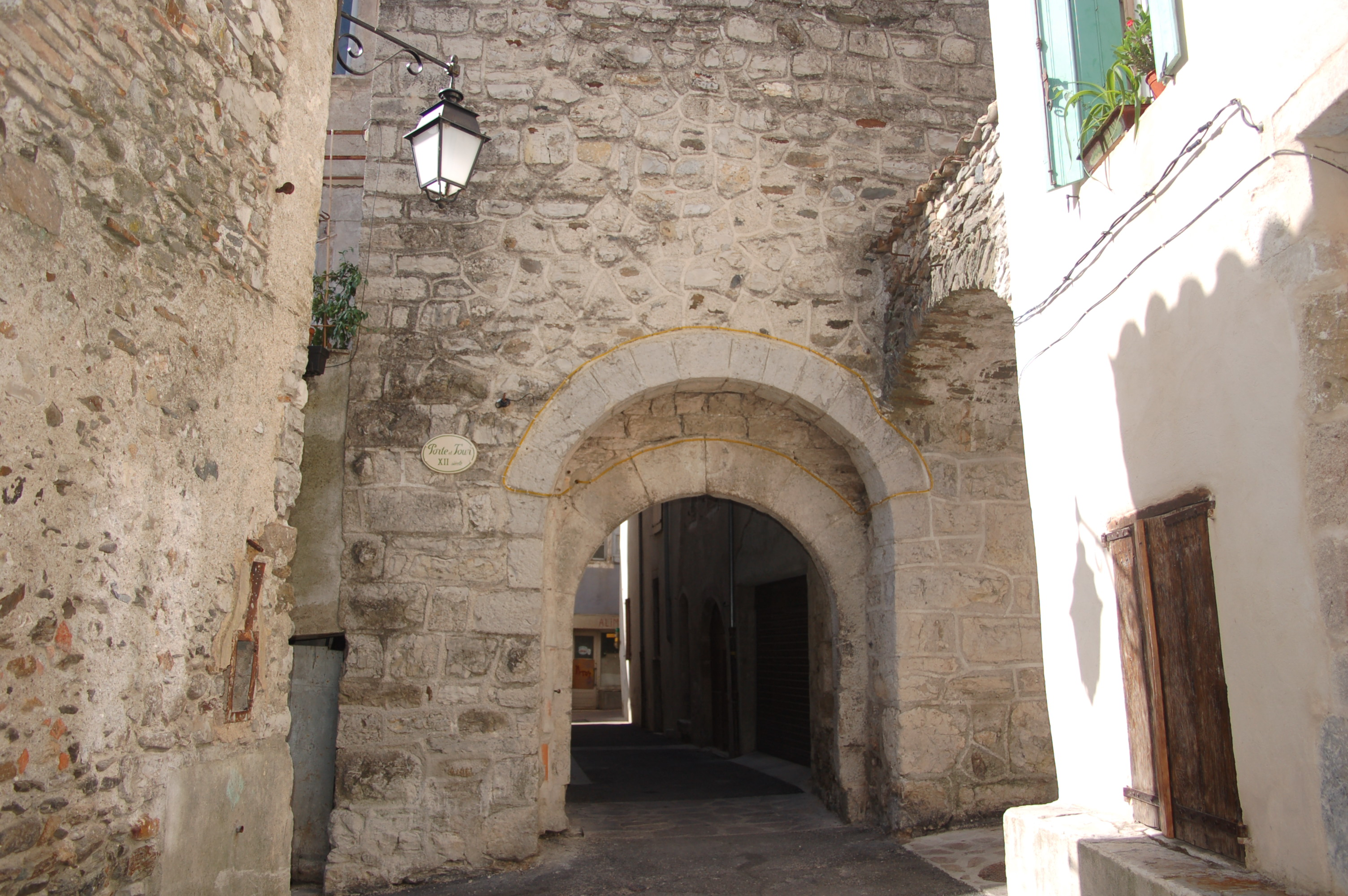 A gate and ramparts, in Sumène, dating from the twelfth century.